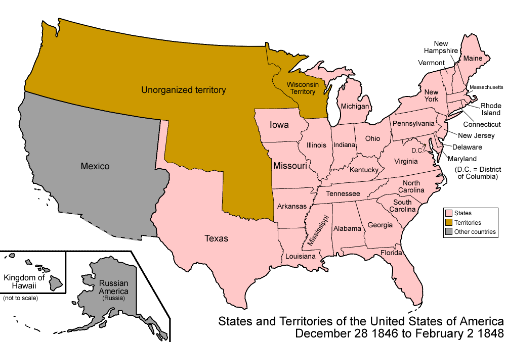 Map of the states and territories of the United States as it was from December 1846 to February 1848. On December 28 1846, a portion of Iowa Territory was admitted as the state of Iowa; the remainder became unorganized. On February 2 1848, as a result of the Mexican-American War, Mexico ceded a large portion of its land to the United States.